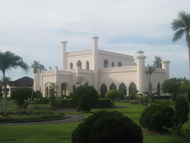 Castle of Siak Kingdom, Riau, Indonesia Camera: Canon Digital IXUS 80 IS License on Flickr (2011-01-11): CC-BY-2.0